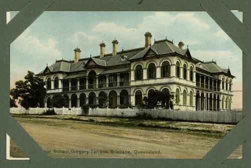 Brisbane Girls Grammar School- Main Building, c1910 Image title:Girls' Grammar School on Gregory Terrace, Brisbane Description: Building of Brisbane Girls Grammar School, circa 1906-1910.